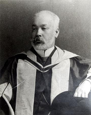 Bust portrait of Nishi Tokujiro (西徳二郎, 1847 – 1912)